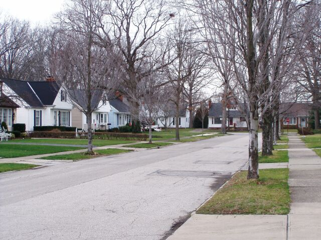 Street scene in Middleburg Hts, Ohio